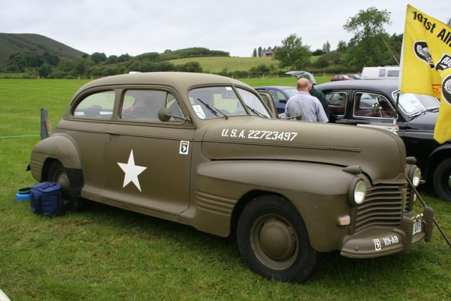 Staff car on show